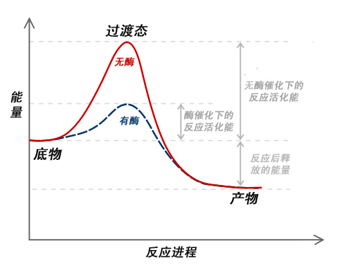 revised from Image:ActivationEnergyInt.svg